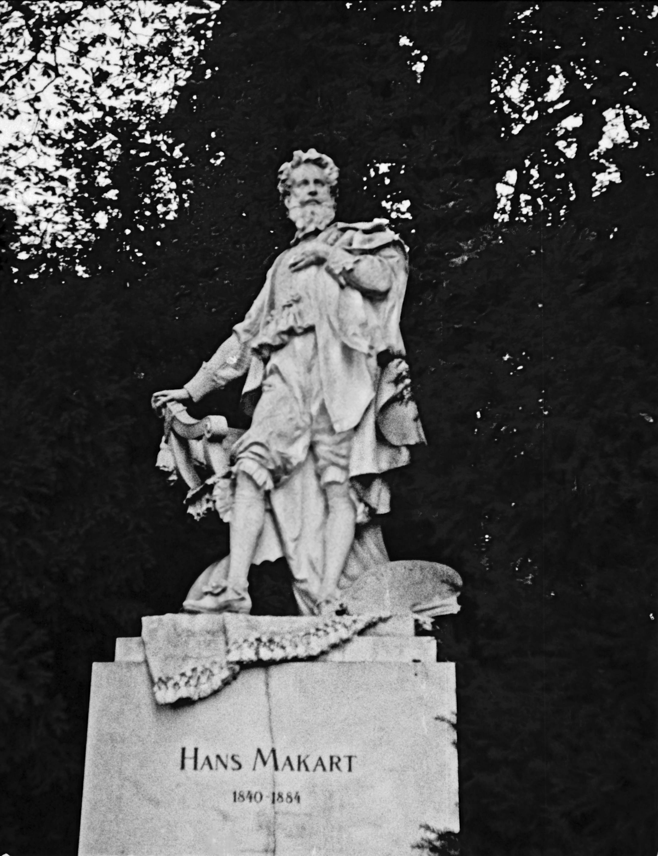 Statute of Hans Makart in Vienna